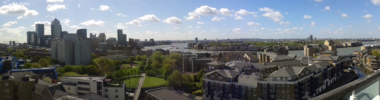 Limehouse: the bend in the Thames at Cuckold's Point, looking south down Limehouse Reach and west up the Lower Pool of London. Limehouse's park to the left and its built-up canal to the right, the Limehouse cut providing a shortcut around the Isle of Dogs (Canary Wharf and Blackwall) are prominent. Across the river most the salient is slightly denser, residentially, Rotherhithe along its longer riverside, but equally green if not more so inland. On the horizon the North Downs rise to the Botley Hill and Reigate Hill ridge, north of the historic town Reigate in Surrey.